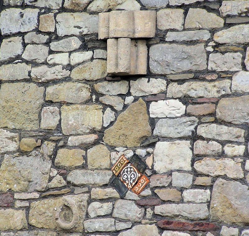 Abbey remains in building in Station Rd Keynsham. These are supposed to be parts of the dissolved Abbey, other parts can be seen on tops of walls of the new vicarage, and in some gardens. You will also see an ammonite which are also common in Keynsham. See 1730346